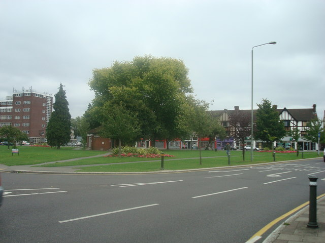 Elmers End Green